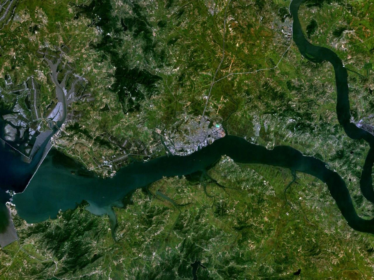 Namp'o, North Korea. Satellite view.